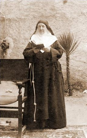 Blessed Carmen González Ramos during her last years, ca. 1895-99